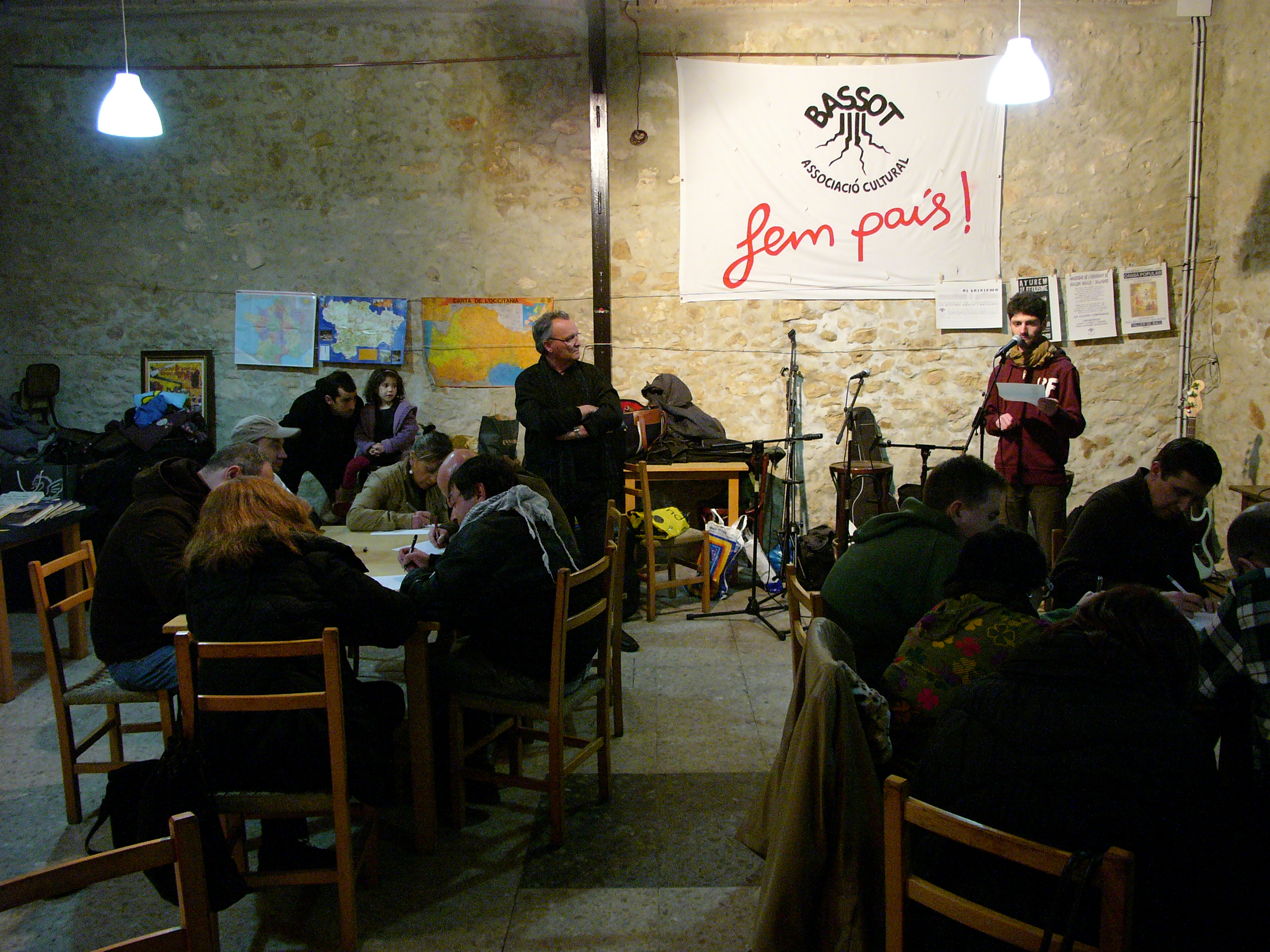 Occitan singer-songwriter Primaël reads the text for the XV Dictada Occitana under Lluís Fornés' supervision in Ca Bassot